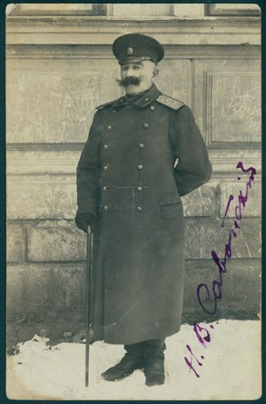 Russian officer Nikolay Savoyski